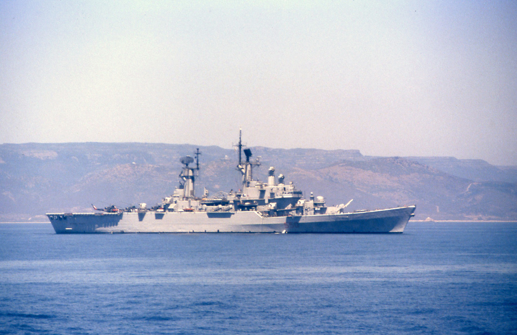 Italian Navy missie cruiser Vittorio Veneto off Sardinia coast during a missile exercise in 1985